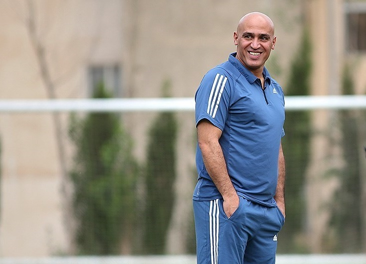 Alireza Mansourian